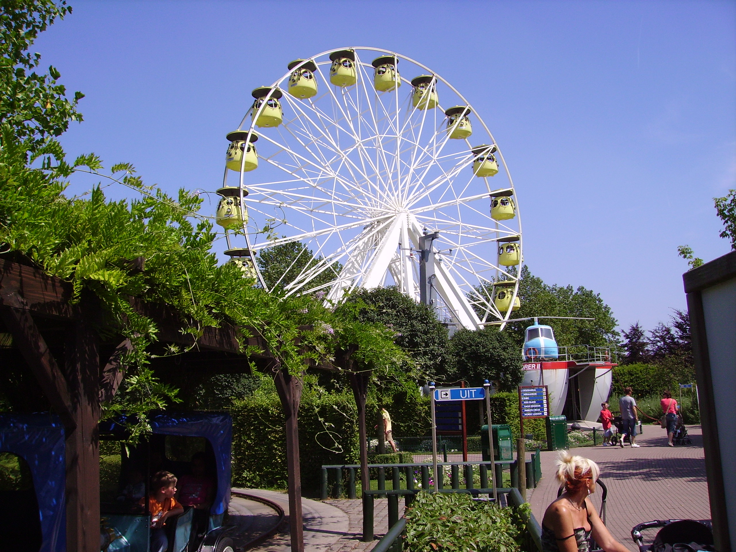 Boudewijnpark near Brugge, Belgium